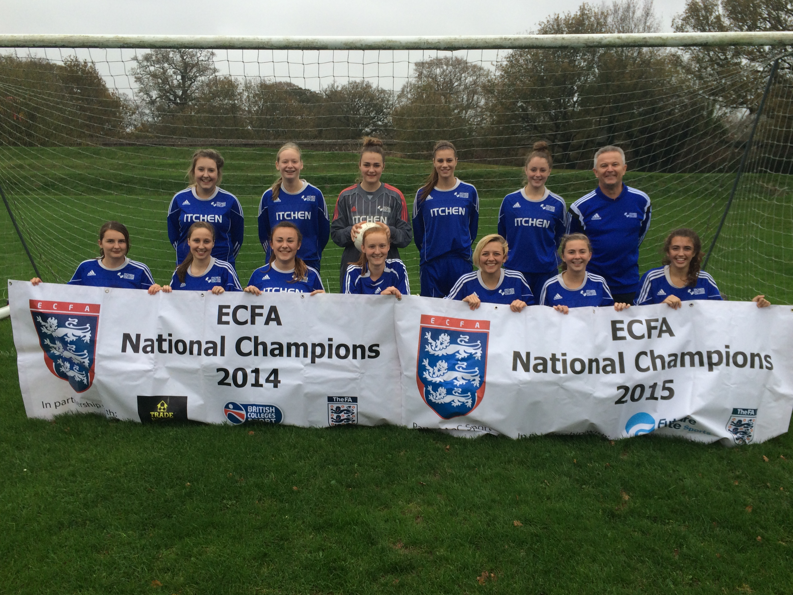 Itchen College Ladies Football Winners